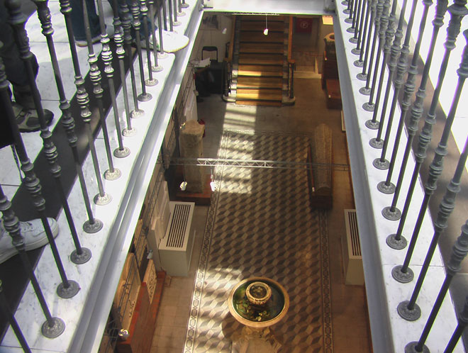 Saloniki_Jewish_Museum. Credit: Courtesy of Arie Darzi to memorialize the Jewish community in Greece.